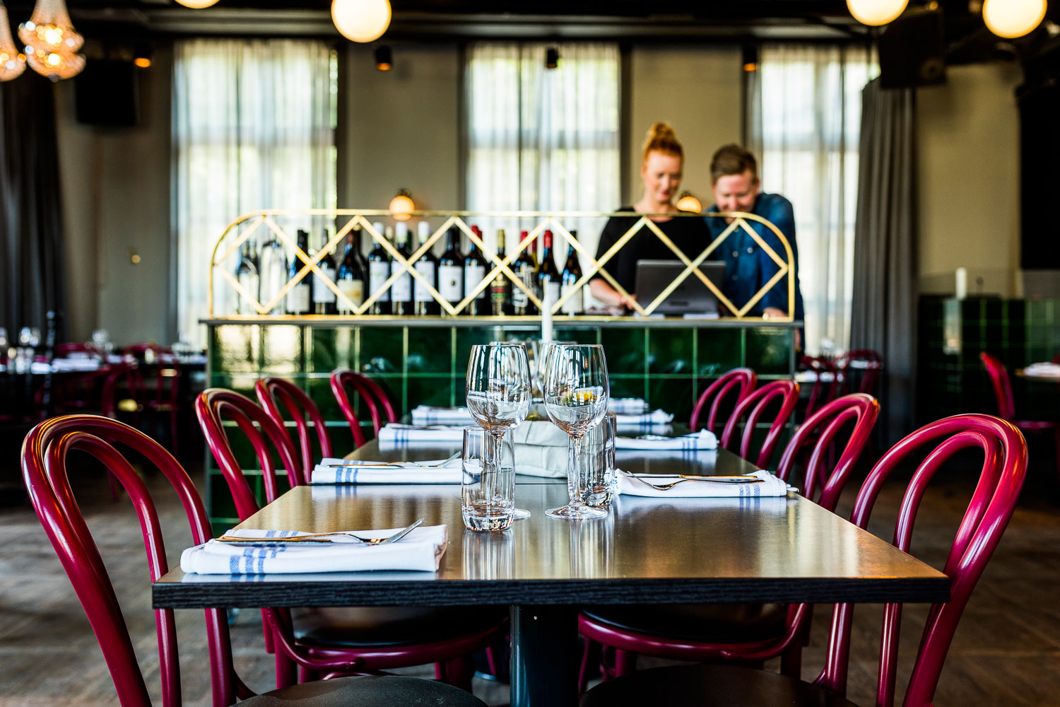 This is a picture taken by an in-house photographer at Södra Teatern in the purpose of marketing the restaurant.